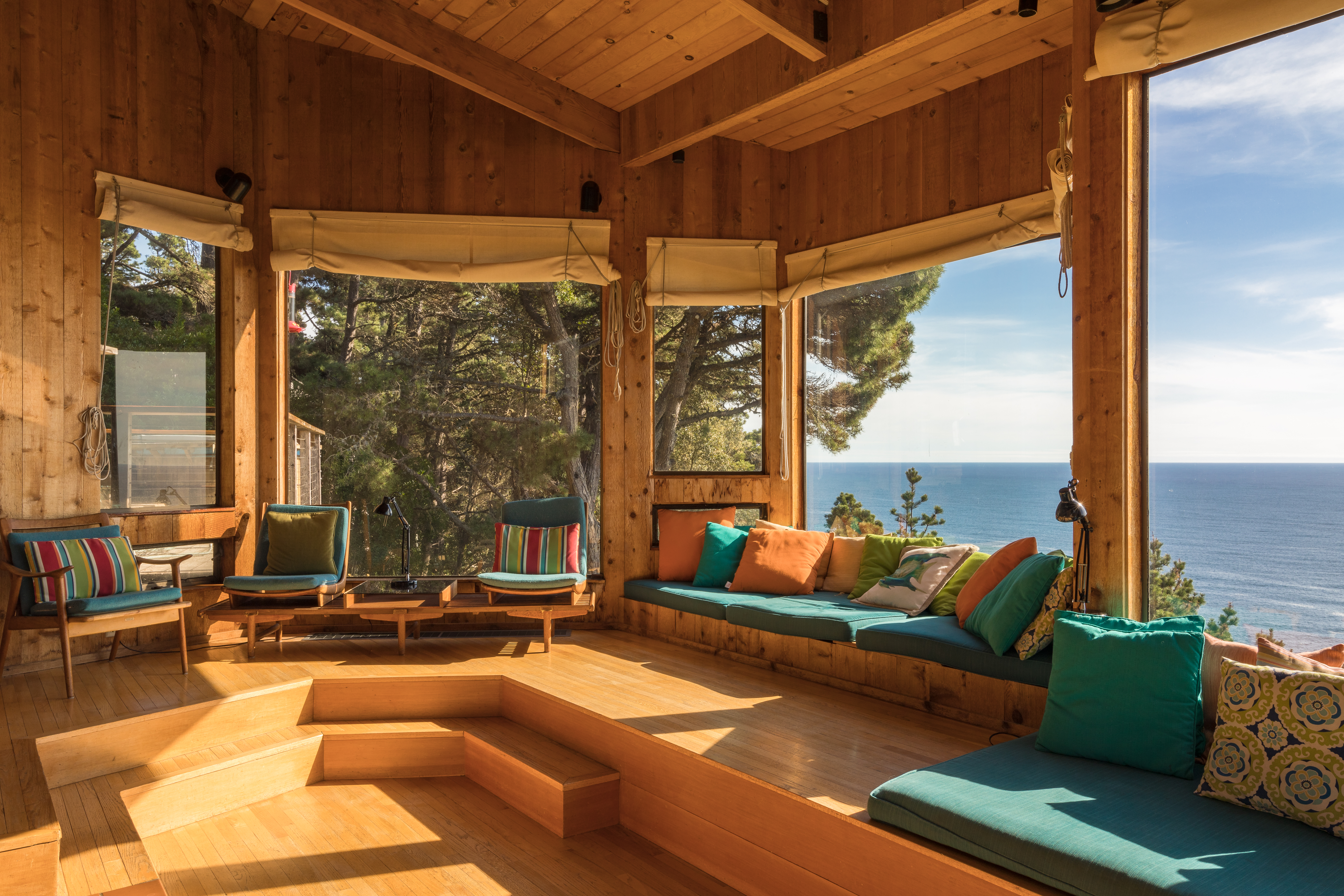 Living room of 34988 Crows Nest Drive, Sea Ranch, Sonoma County, California